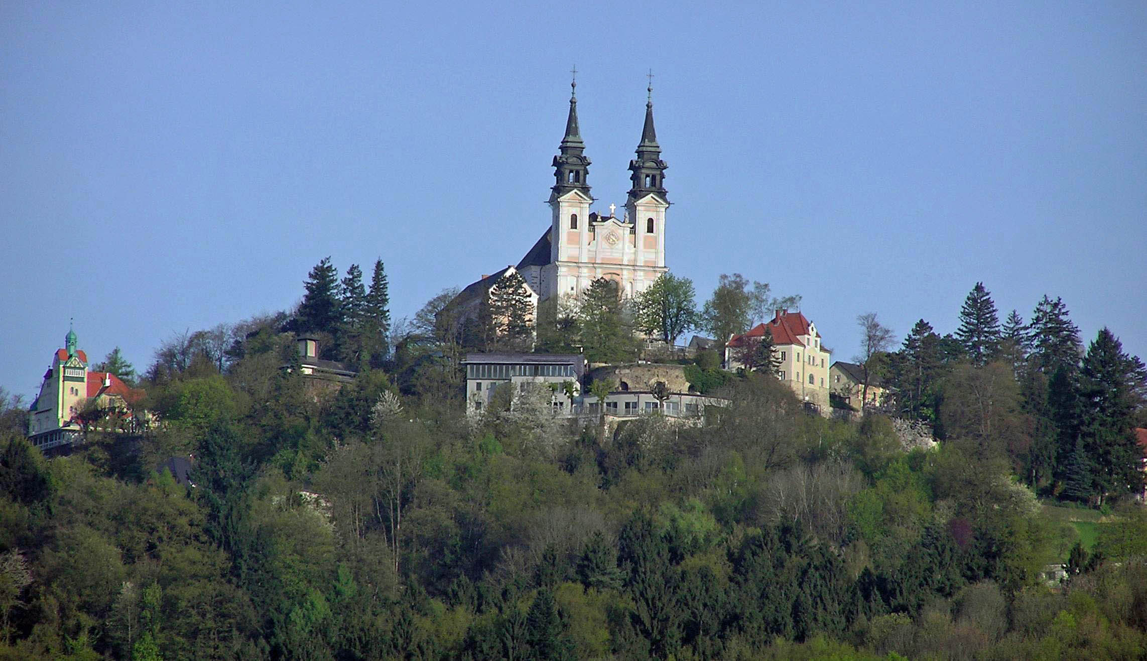 Pöstlingberg in Linz, Austria